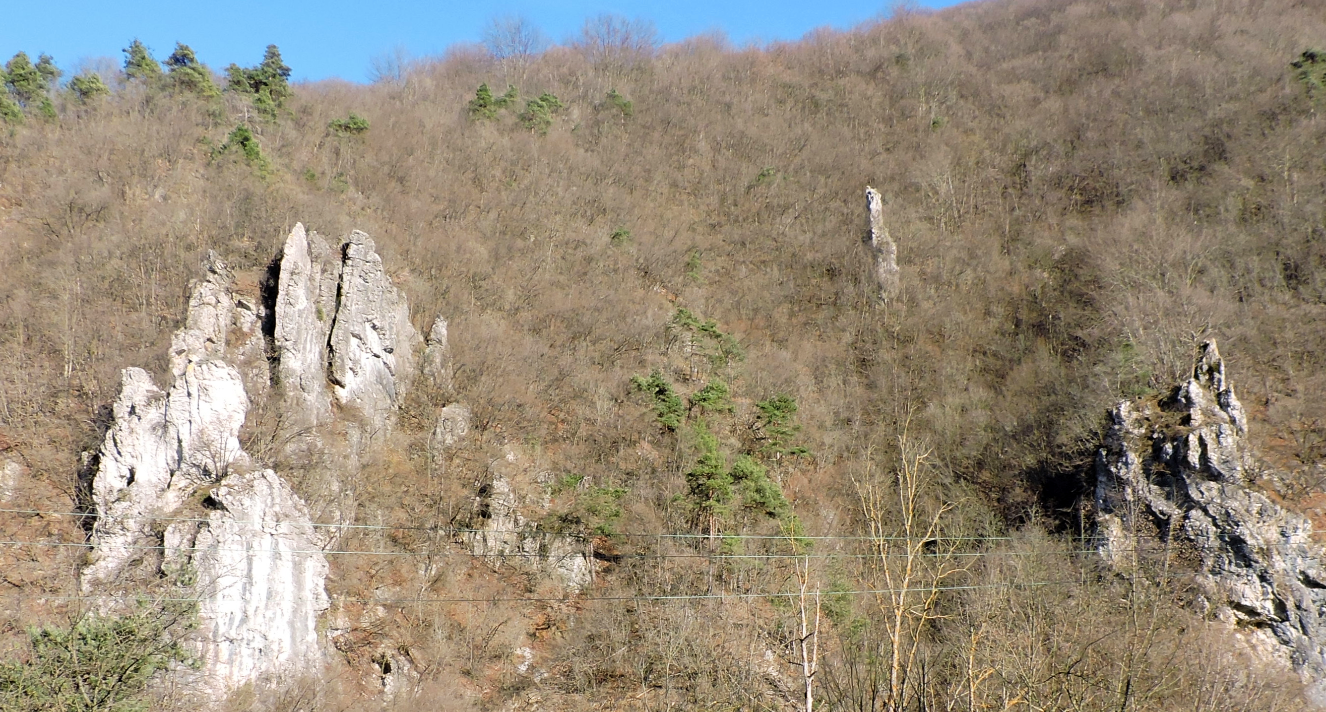 Regional natural park of Bric Tana (SV, Italy) from provincial road nr. 51